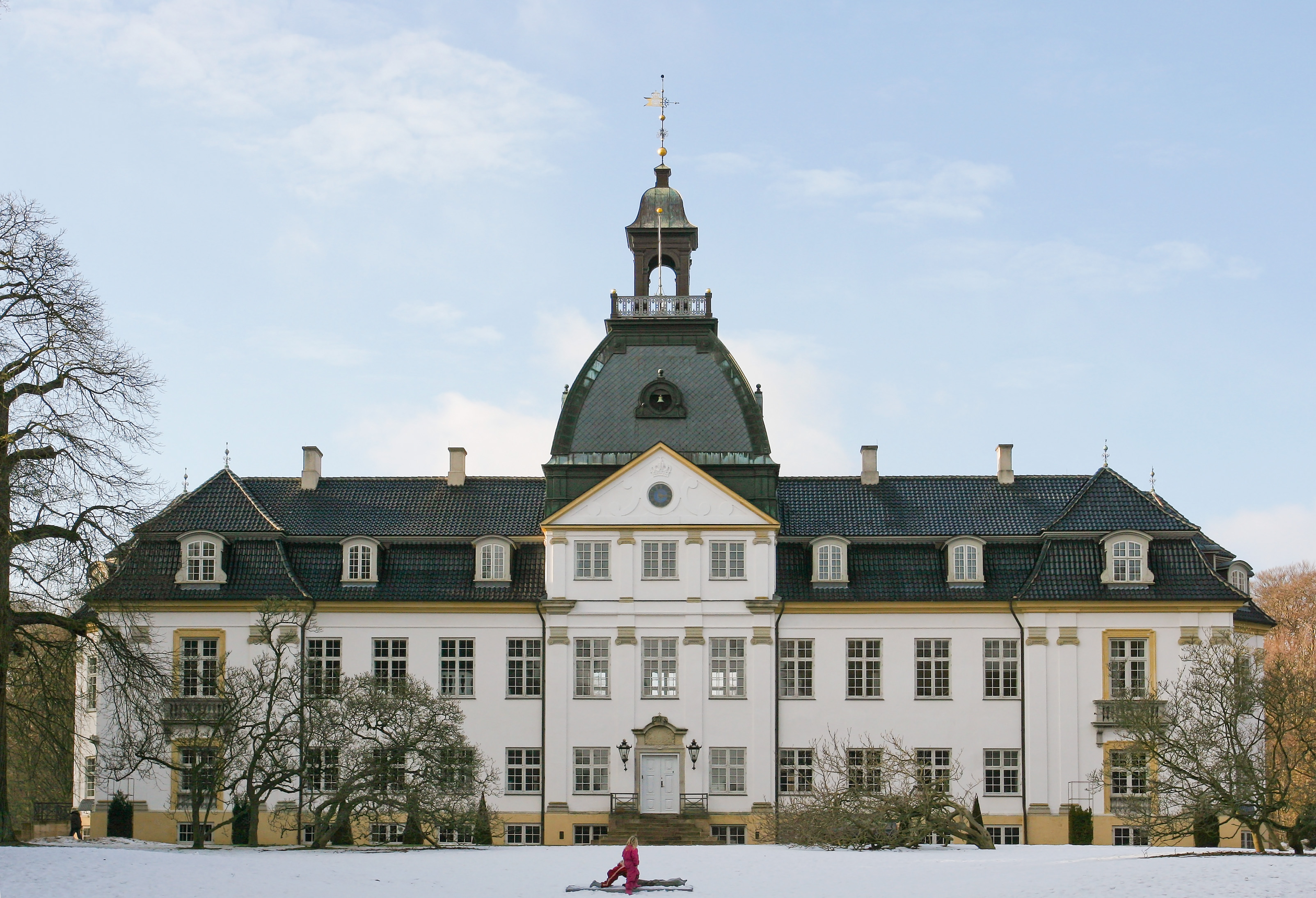 Charlottenlund Slot north of Copenhagen, Denmark. Seen from the east. Ferdinand Meldahl has played a role in the design of Charlottenlund Slot.